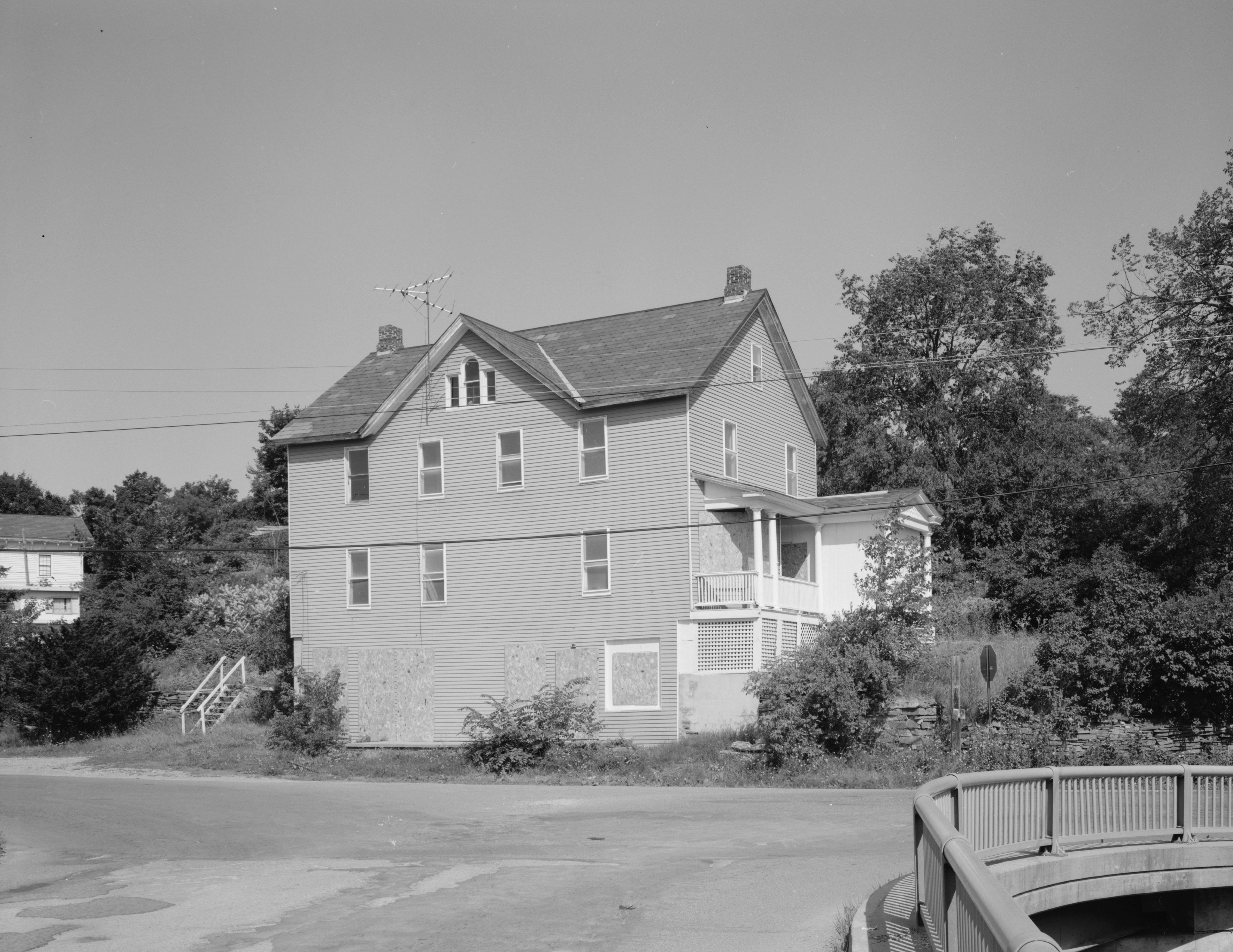 A view of Campbell Hall along County Route 18A (former NY 273) in Hampton, New York